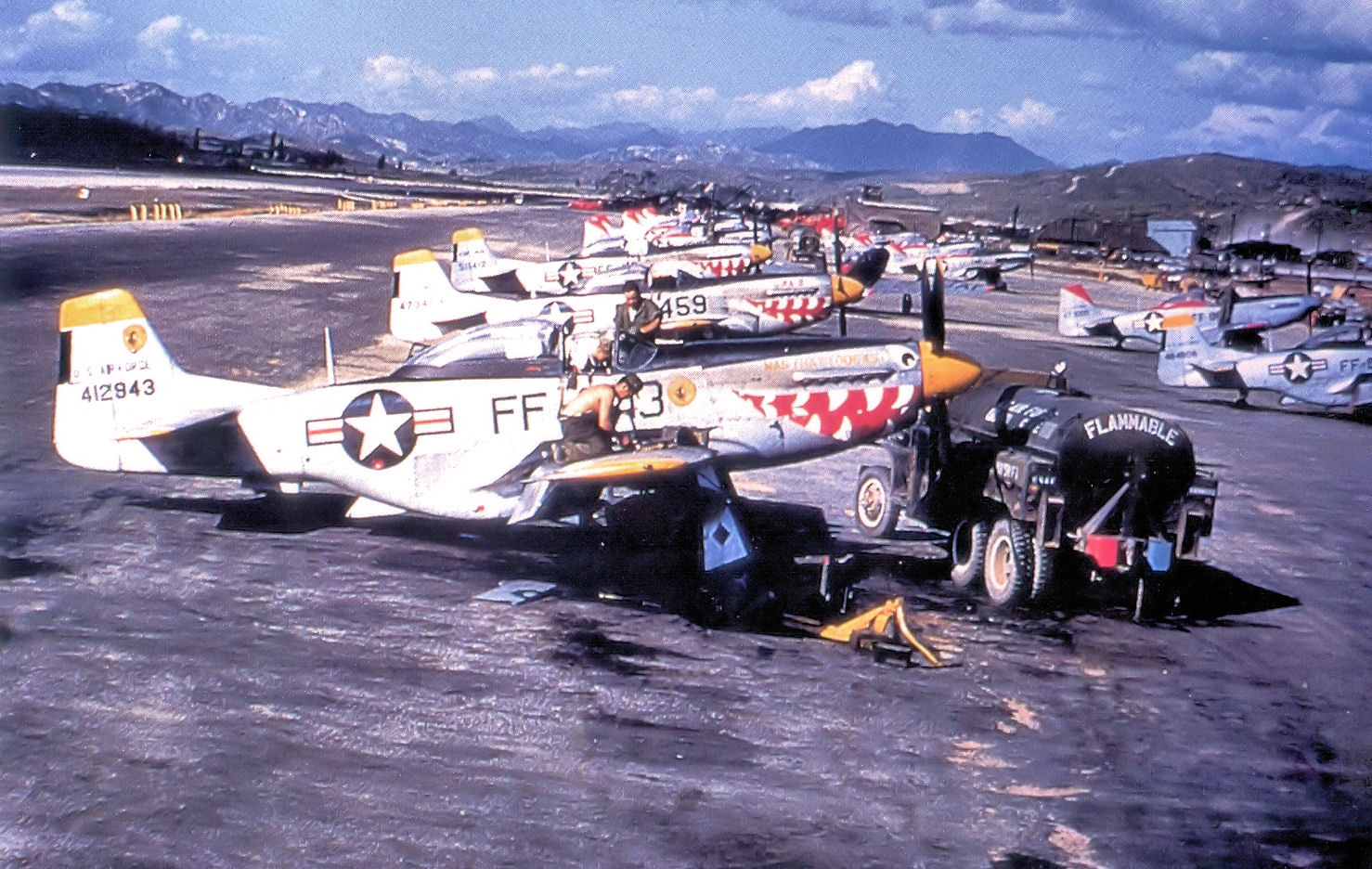 18th Fighter-Bomber Group North American F-51D-20-NT Mustang 44-12943 Chinhae Airfield (K-14) South Korea 1951